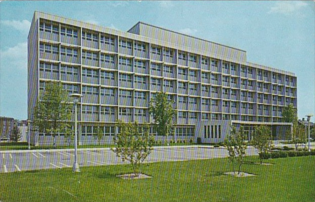 Louisville Methodist Evangelical Hospital in a postcard view when completed c. 1960. Address: 315 East Broadway, Louisville 2, Kentucky